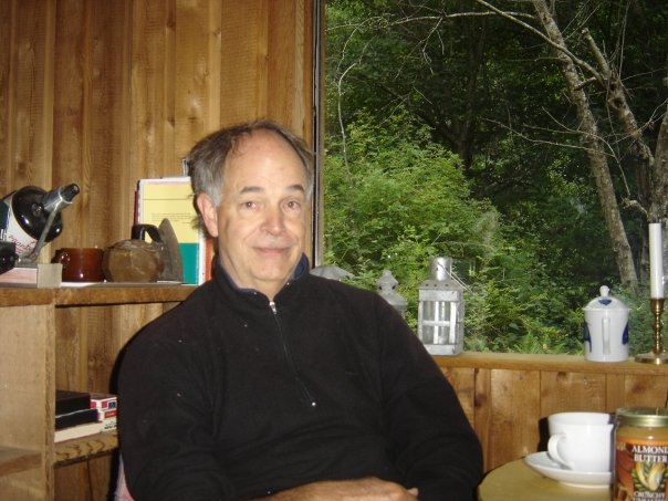 Eric Hansen, Literary Travel Writer in British Columbia, Canada